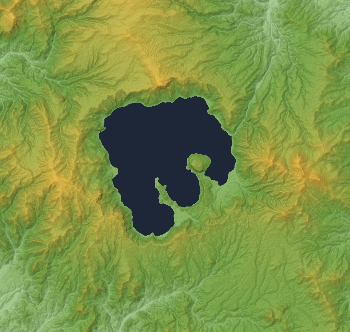 Lake Towada and Towada Caldera in the border between Aomori and Akita Prefectures,Honshu, Japan. This file updated by 30m Mesh.